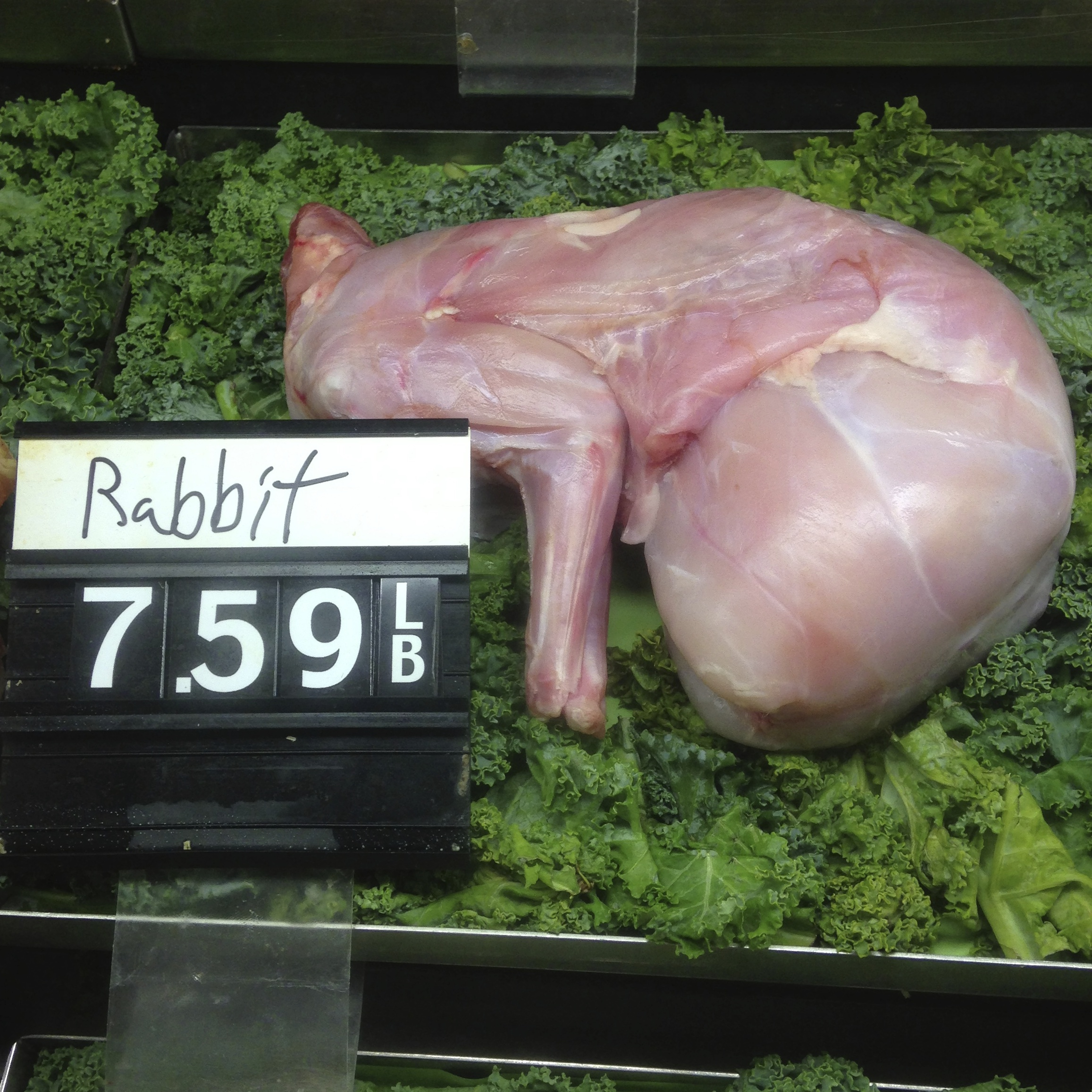 Encountered this at the meat counter at Rouse's. Some of my friends were a little upset when I posted this to Facebook with the caption: "Kids... Some good news and some bad news about the Easter Bunny this year…"